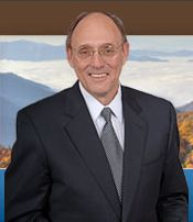 Phil Roe, member of the United States House of Representatives.